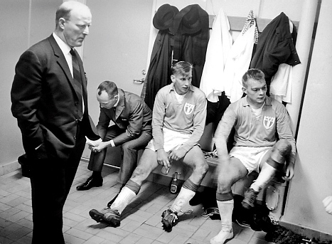 Helge Bengtsson, Bosse Larsson and Lars Granström, following an away game against IFK Norrköping.